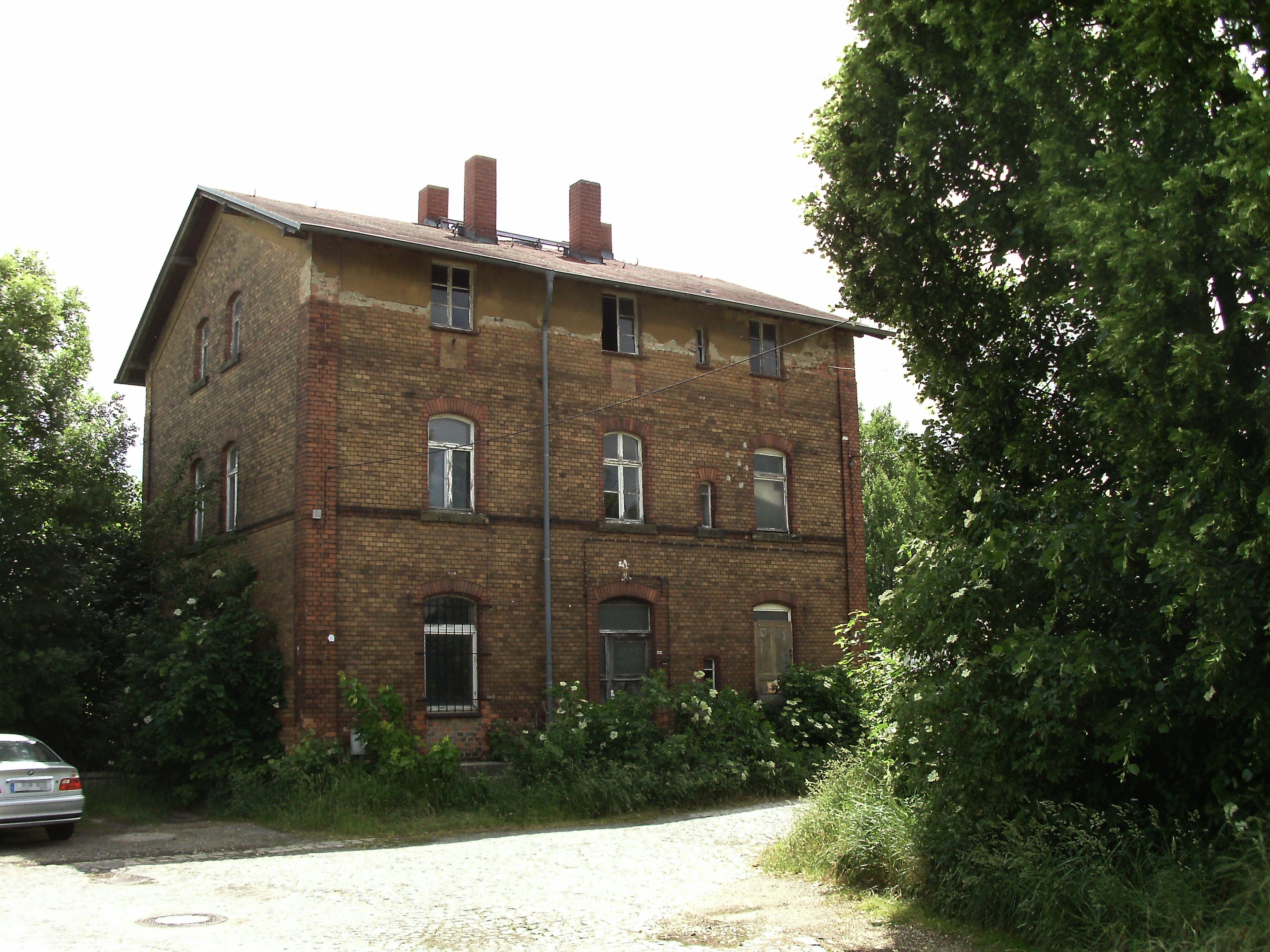 Former Rüssen station of the Gaschwitz-Meuselwitz railway line (Zwenkau, Leipzig district, Saxony)